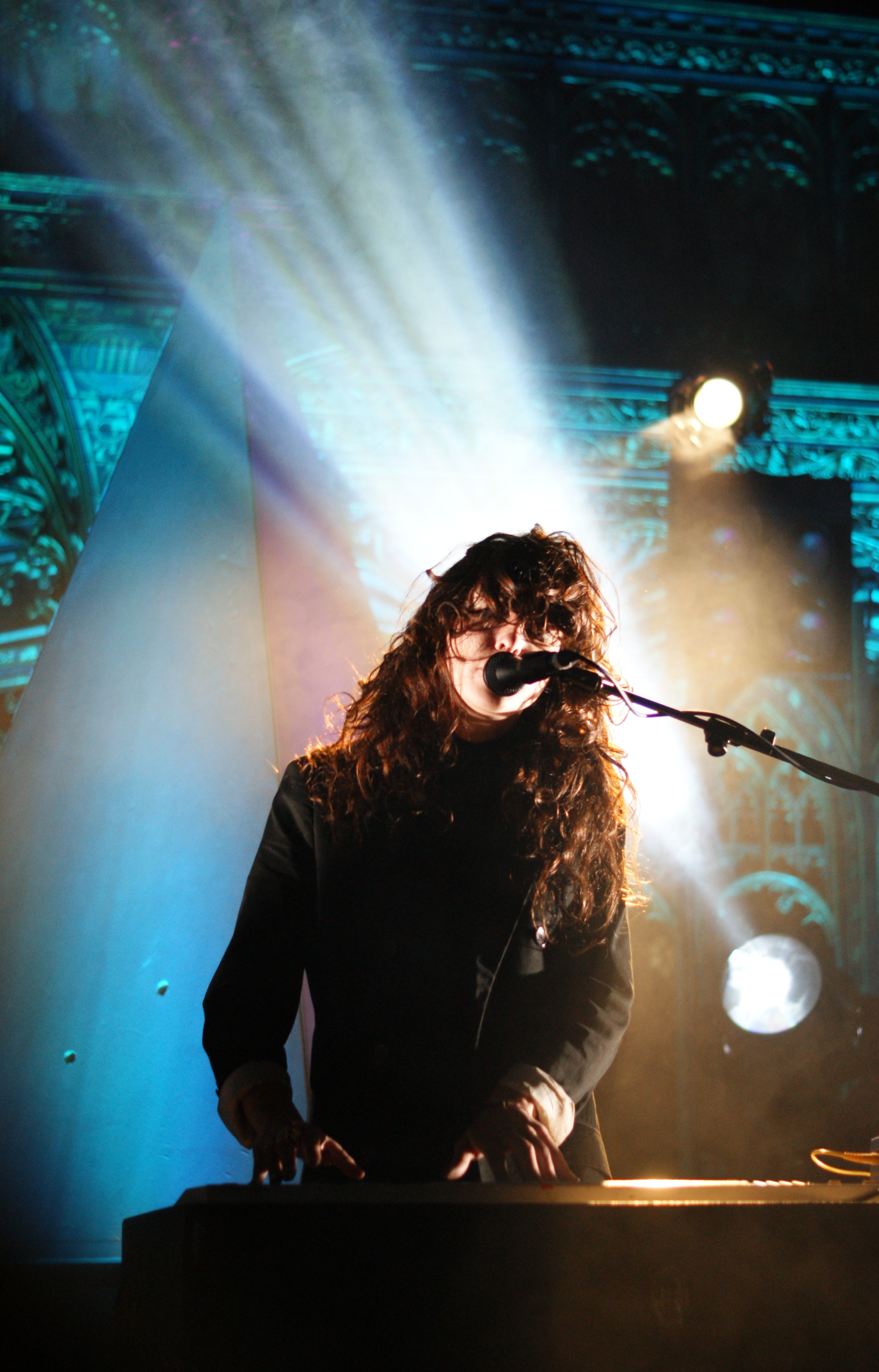 Beach House at Manchester Cathedral, Manchester, on Friday the 19th of November 2010.